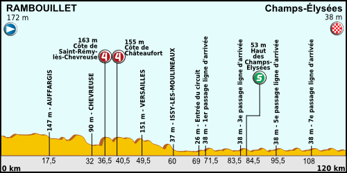 Profil of the 20th stage of the Tour de France 2012